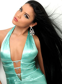 Shannon Baker